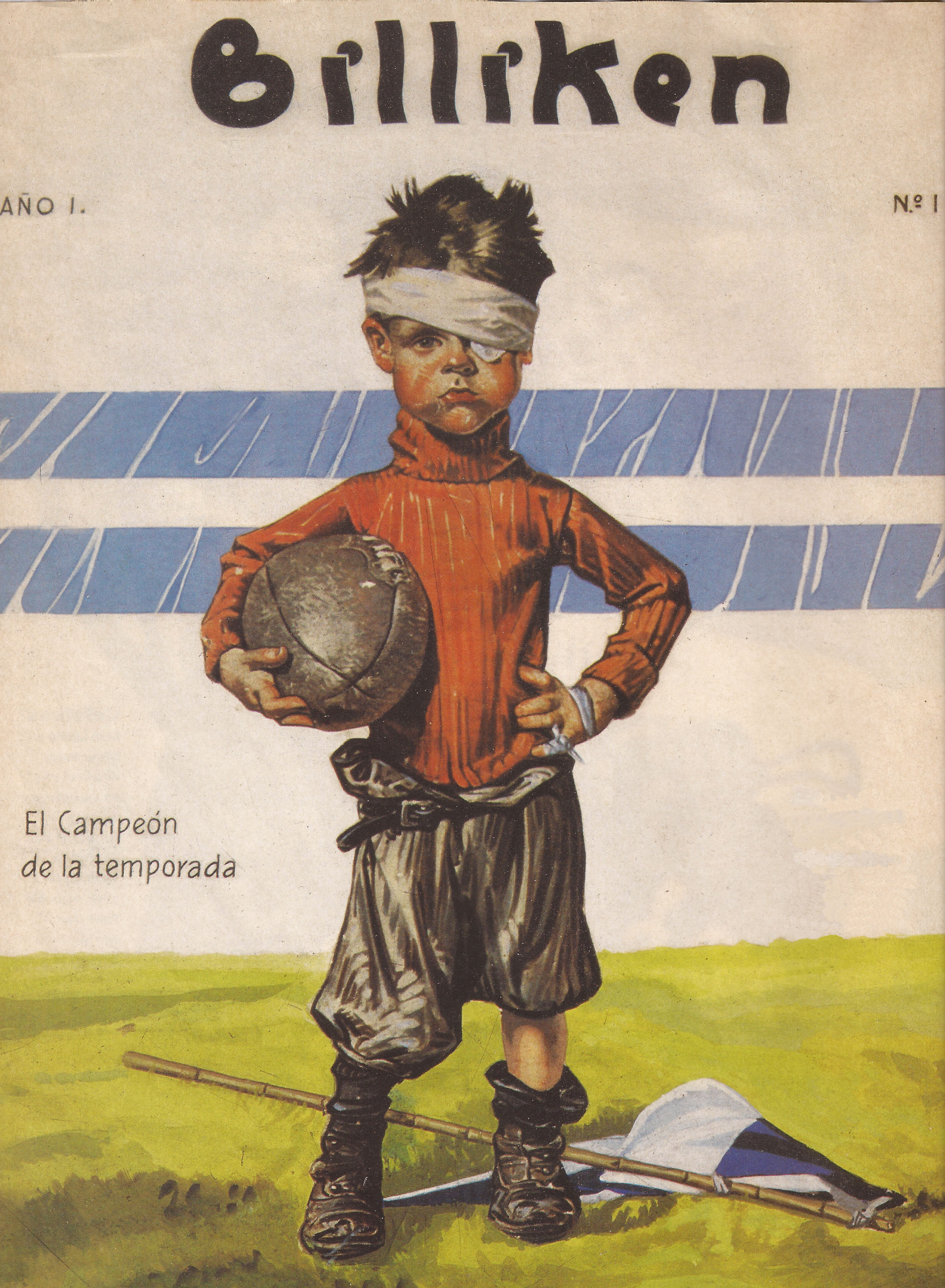 Cover of the Argentine children's magazine Billiken N° 1. The image shows a boy to play football.